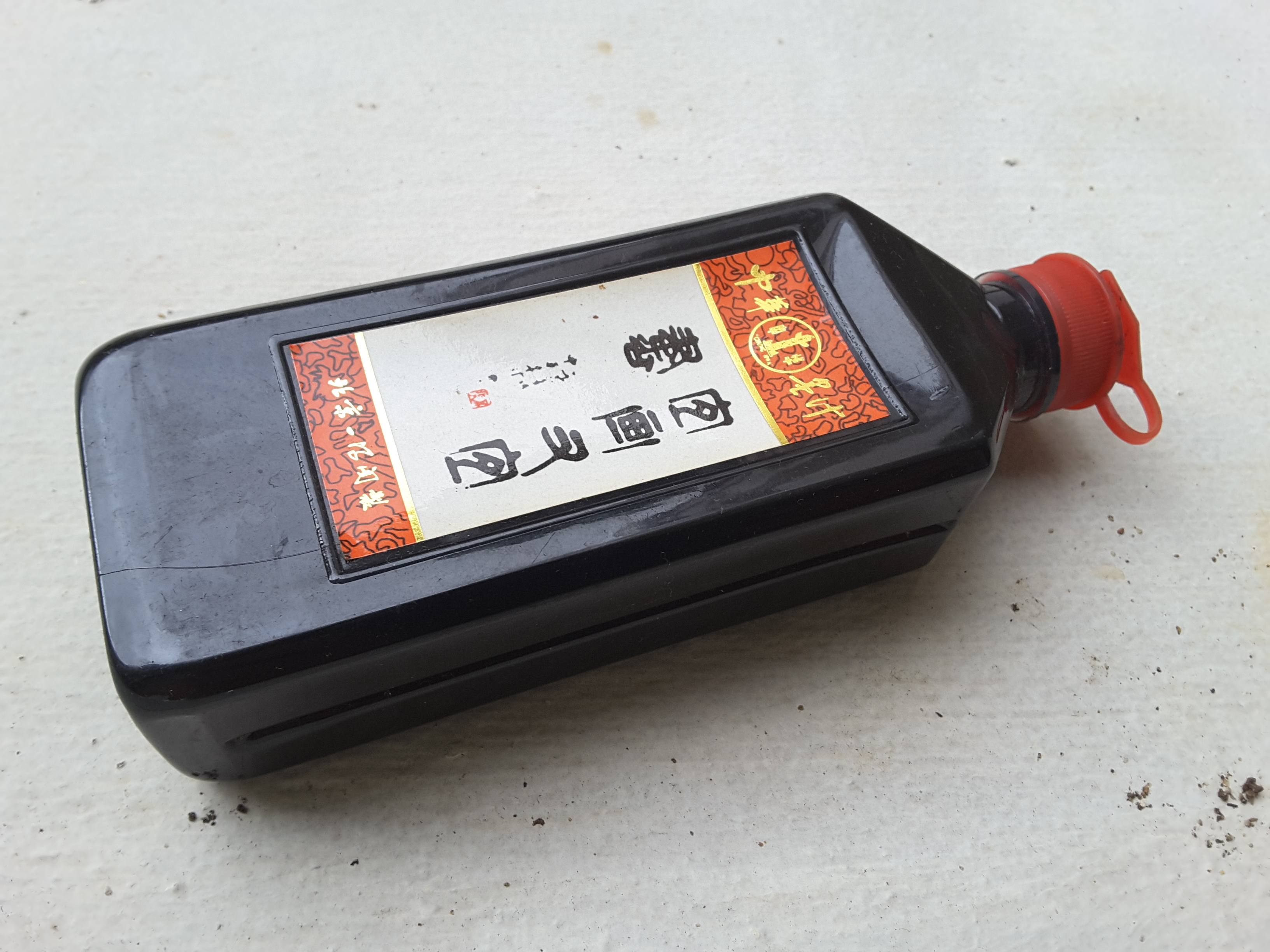 Zhonghua brand of Chinese ink. Product of China.